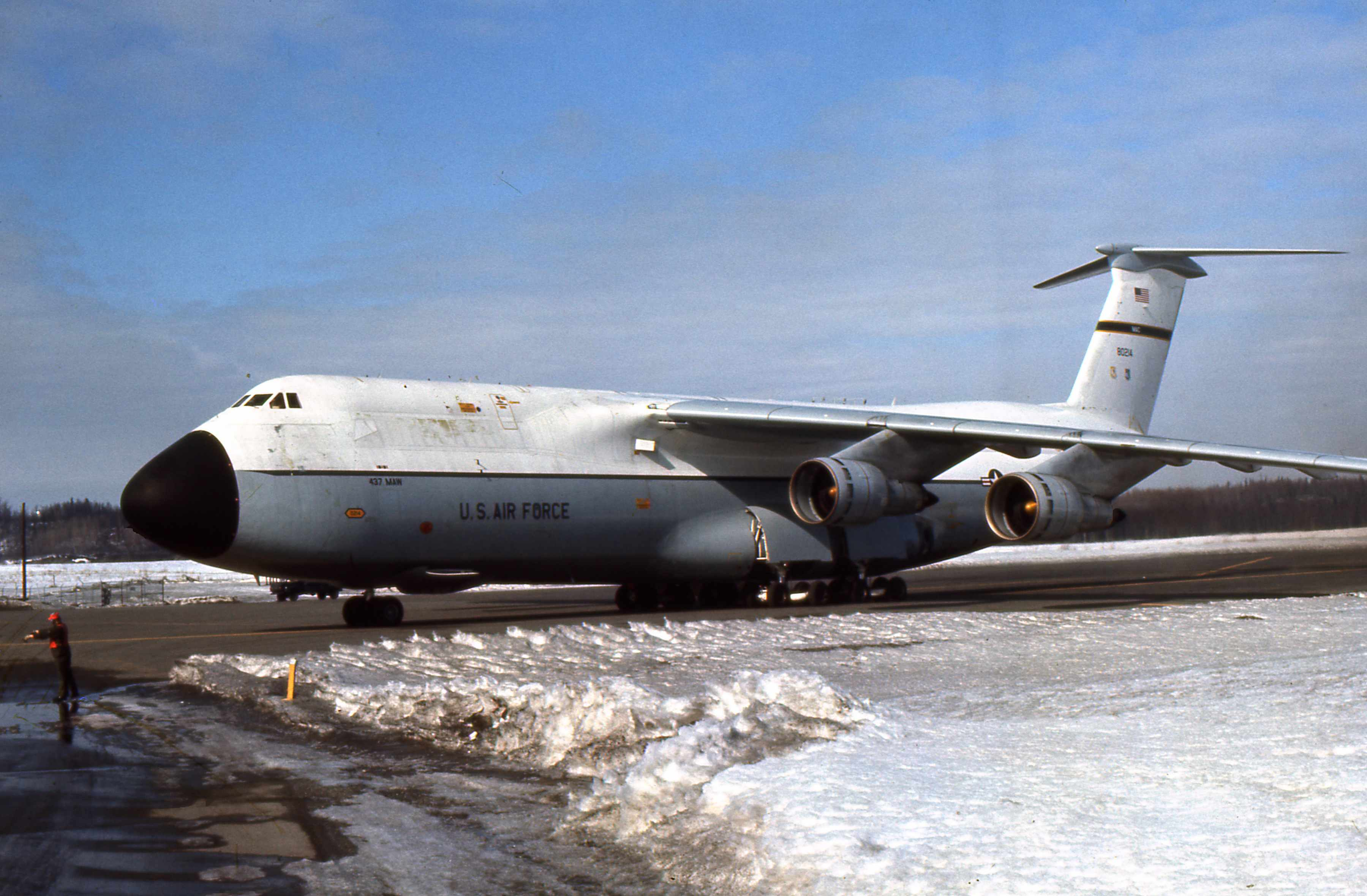 United States, Joint Base Elmendorf-Richardson. United States Air Force C-5A Galaxy belonged to the 437th Military Airlift Wing while taxing at Elmendorf Air Force Base.